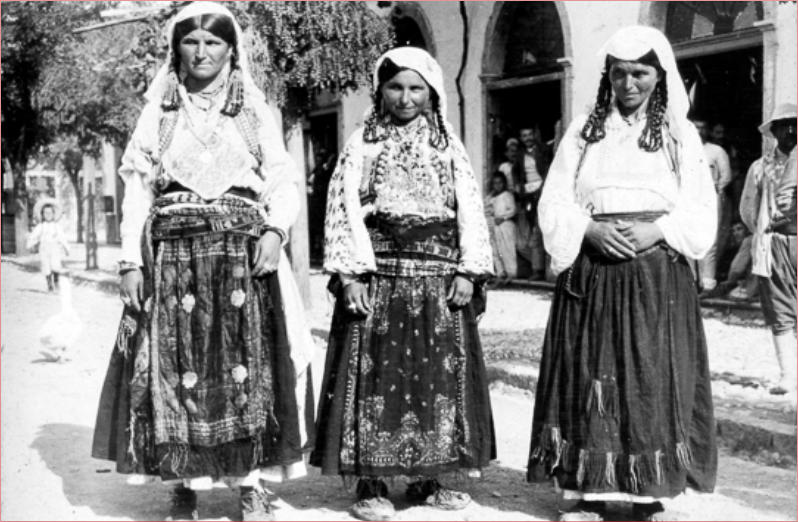 ED009_RAI 400.13140 Albania. Shkodra. Slavic women from the village of Vraka north of Shkodra, with cowries in their hair (Photo: Edith Durham, 1913).